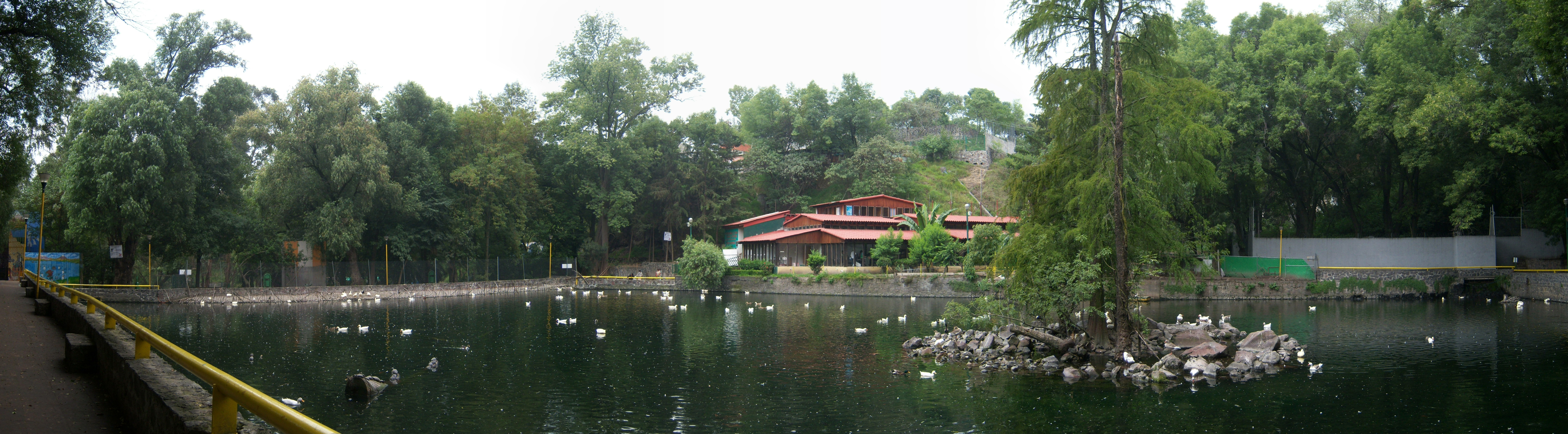 View of the lake park